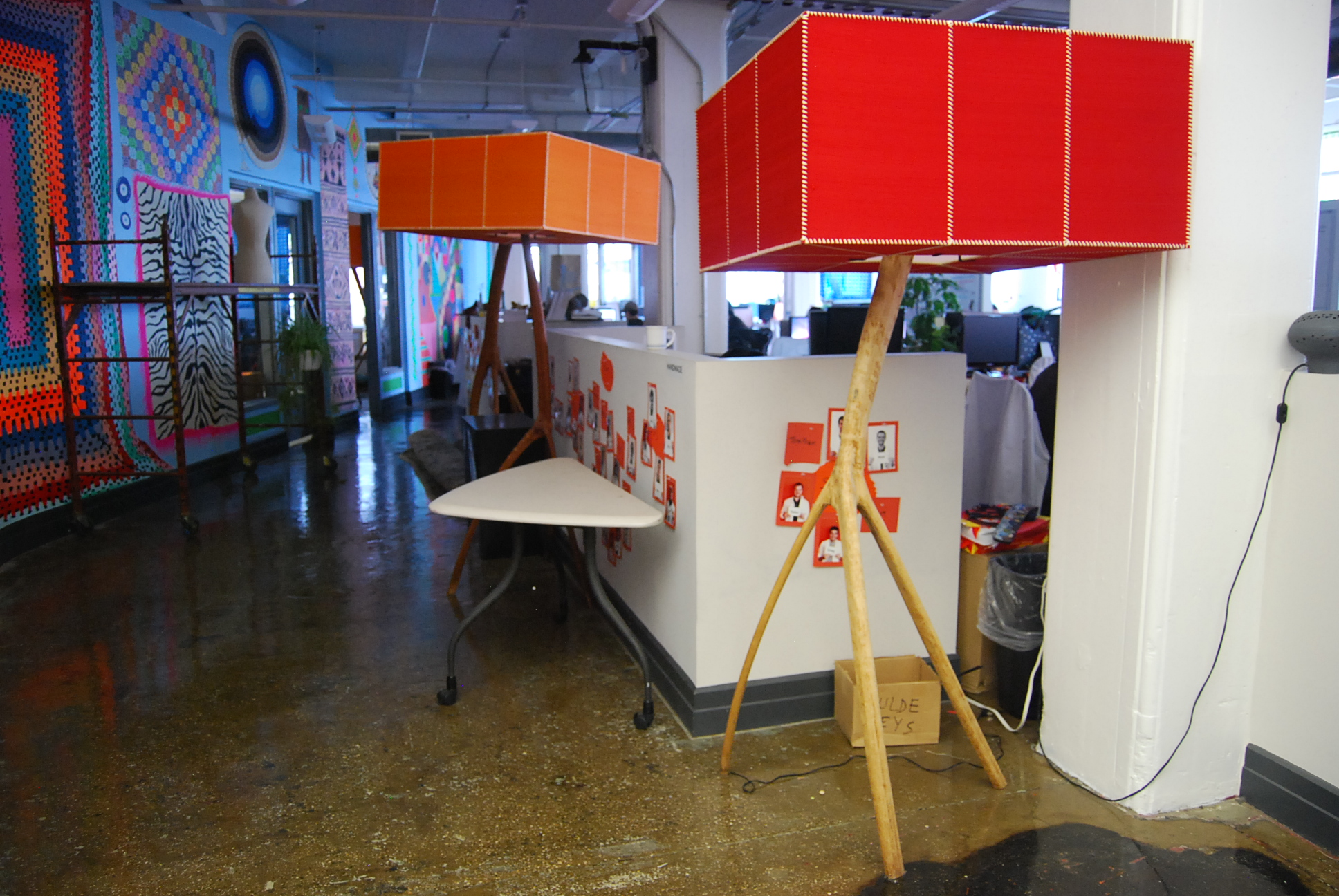 Art in the Etsy offices.